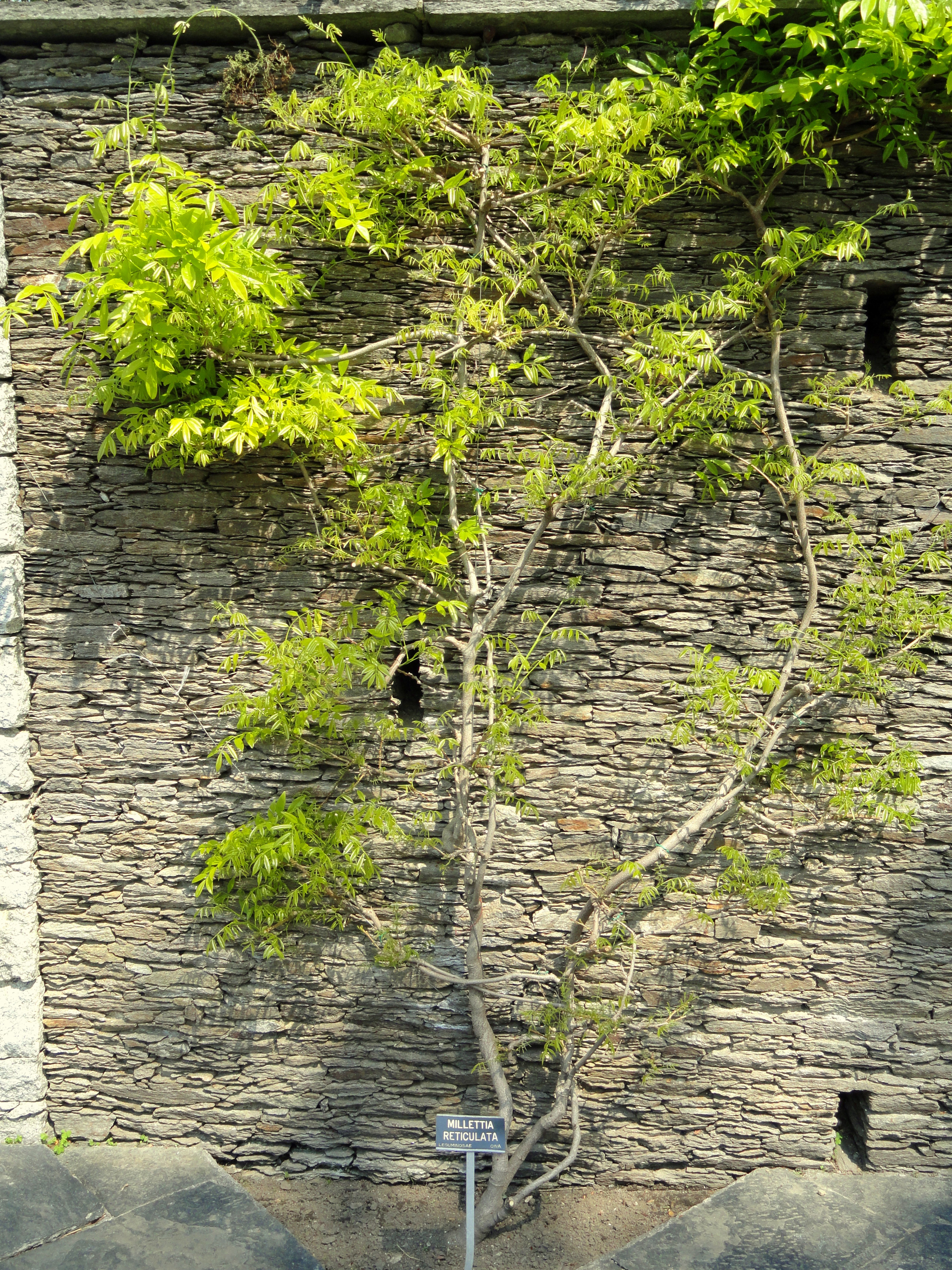 Millettia reticulata. Botanical specimen on the grounds of the Villa Taranto (Verbania), Lake Maggiore, Italy.